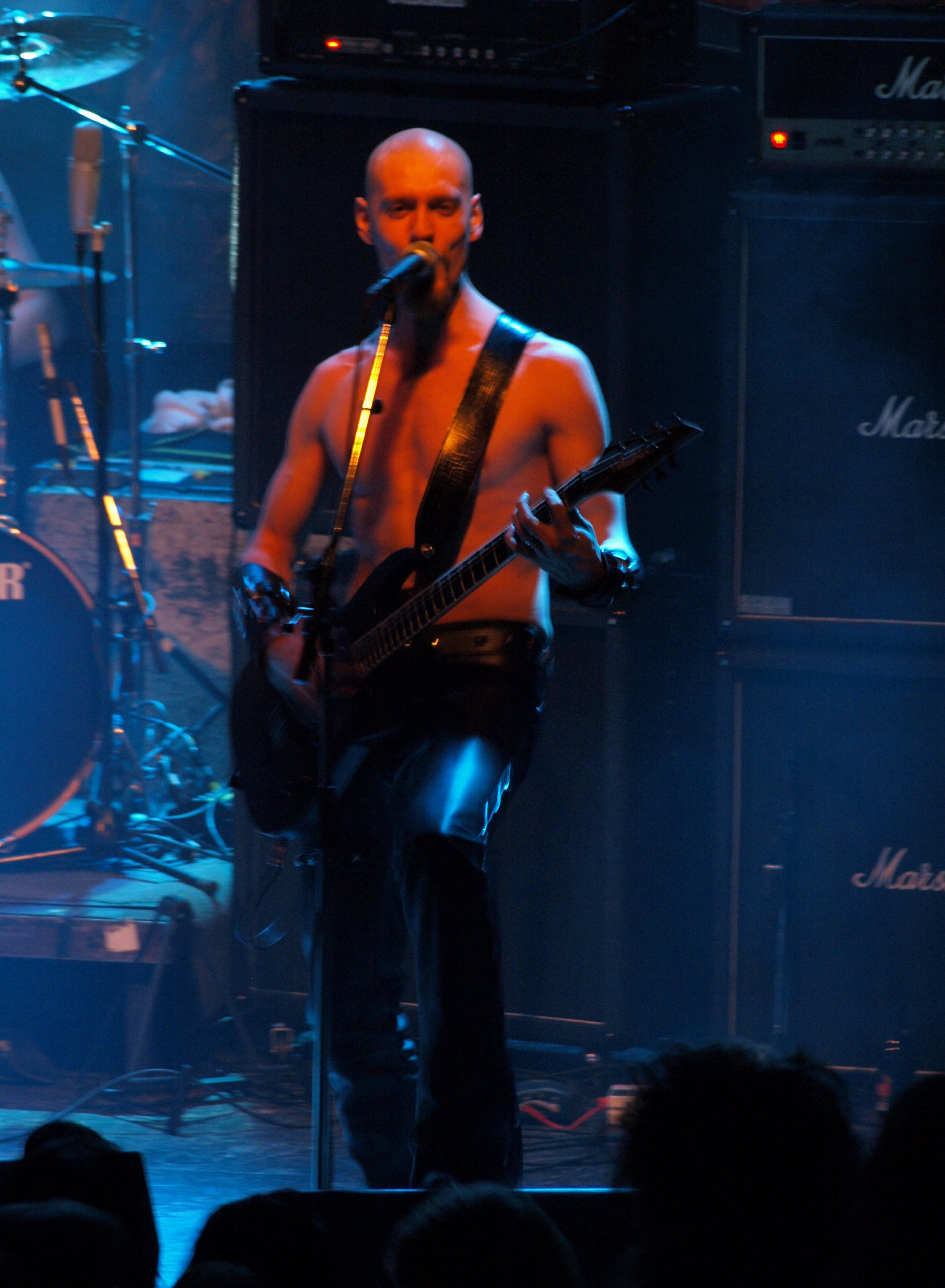 Finnish heavy metal band Teräsbetoni live